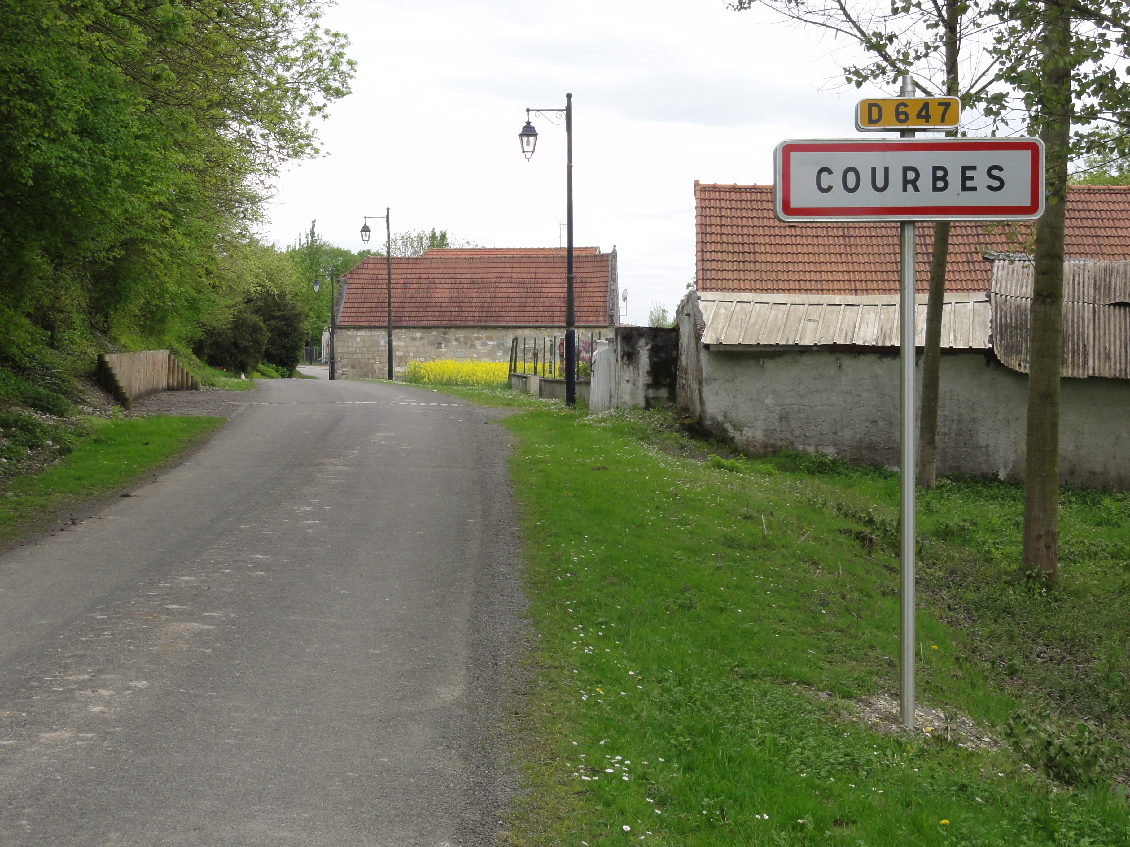 Courbes (Aisne) city limit sign